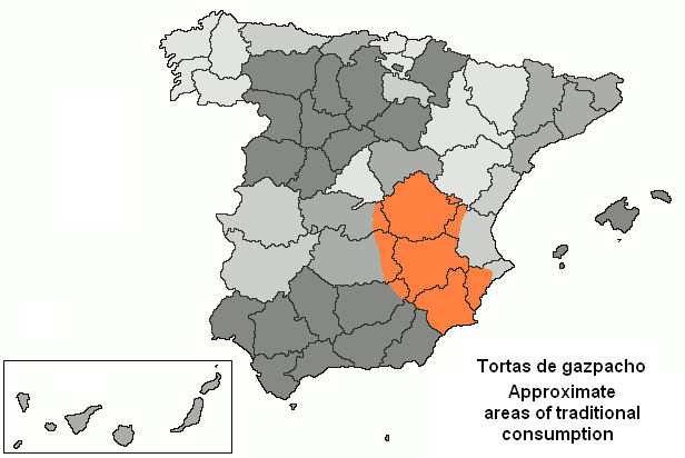 Map of tortas de gazpacho consumption in Spain